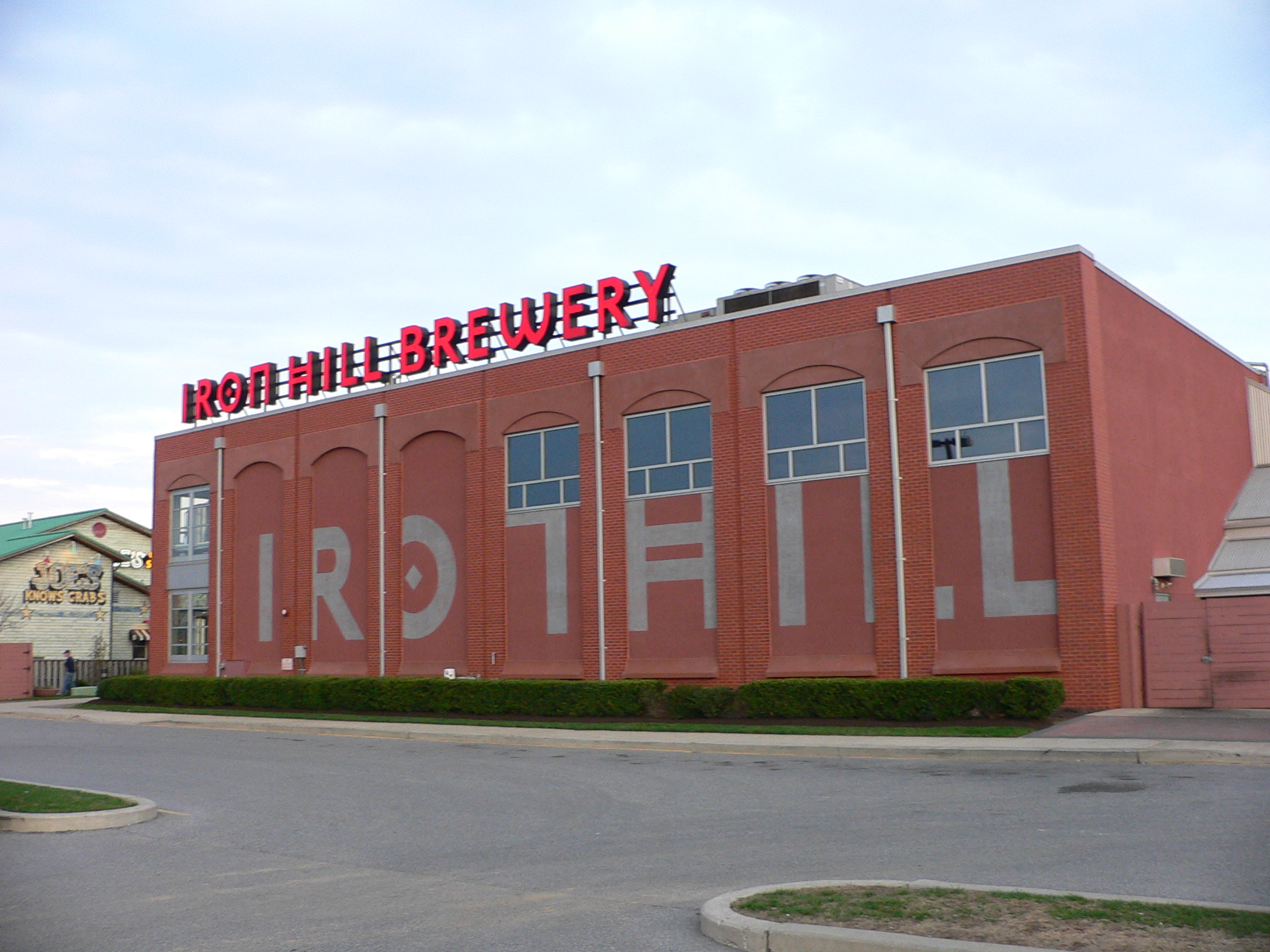 Iron Hill Brewery, Wilmington, Delaware